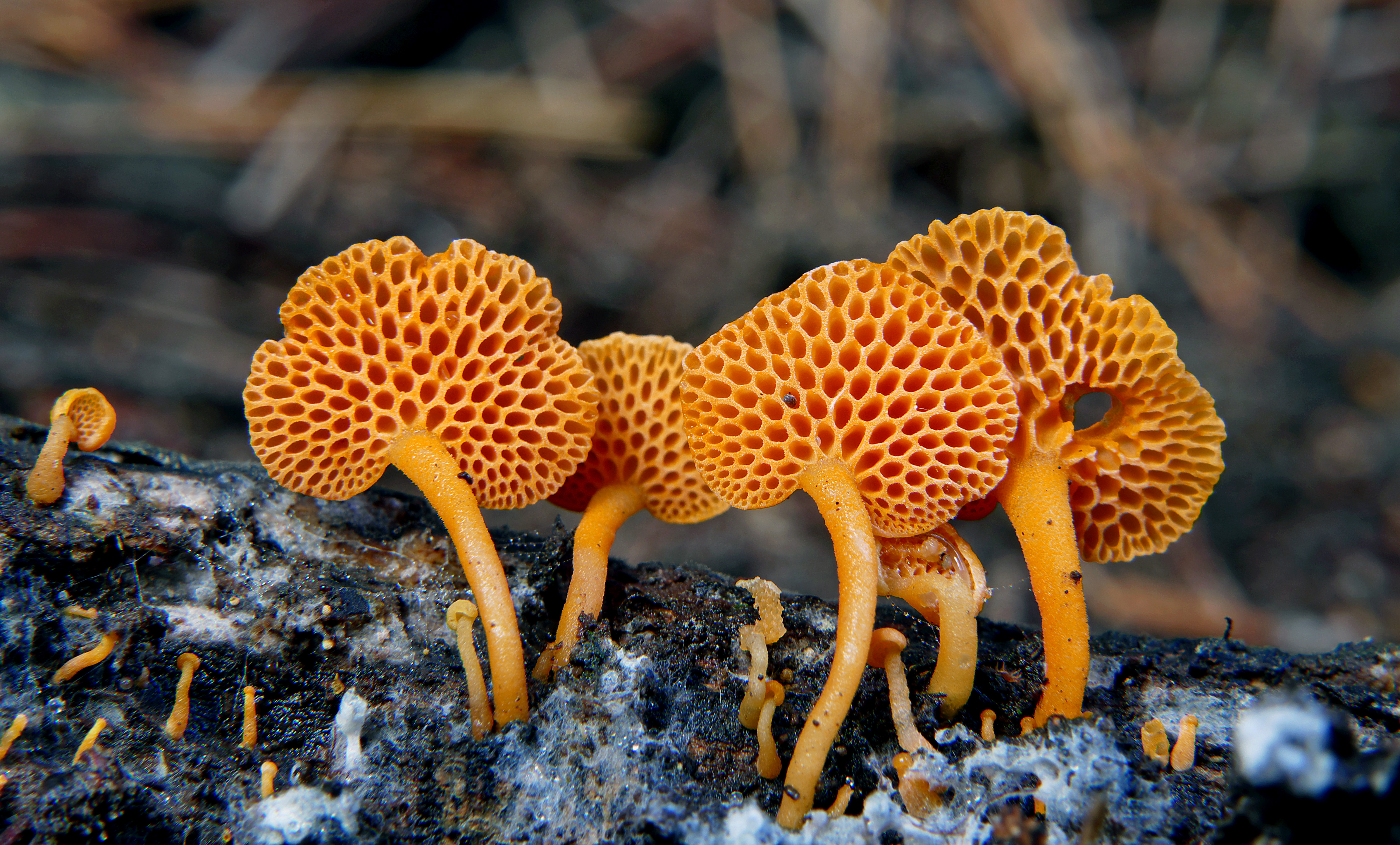 Grows on WOOD. Common Name: Orange pore Fungus Fruit-body: This little fungus is very bright orange in colour. It is fan shaped like a ping pong bat, with a short stem (up to 20 mm long), attached to the side of the cap and to logs or dead branches. Instead of gills it has large pores giving it a honeycombed appearance. The pores are visible through the thin flesh. The fungus is 5-40 mm diameter.